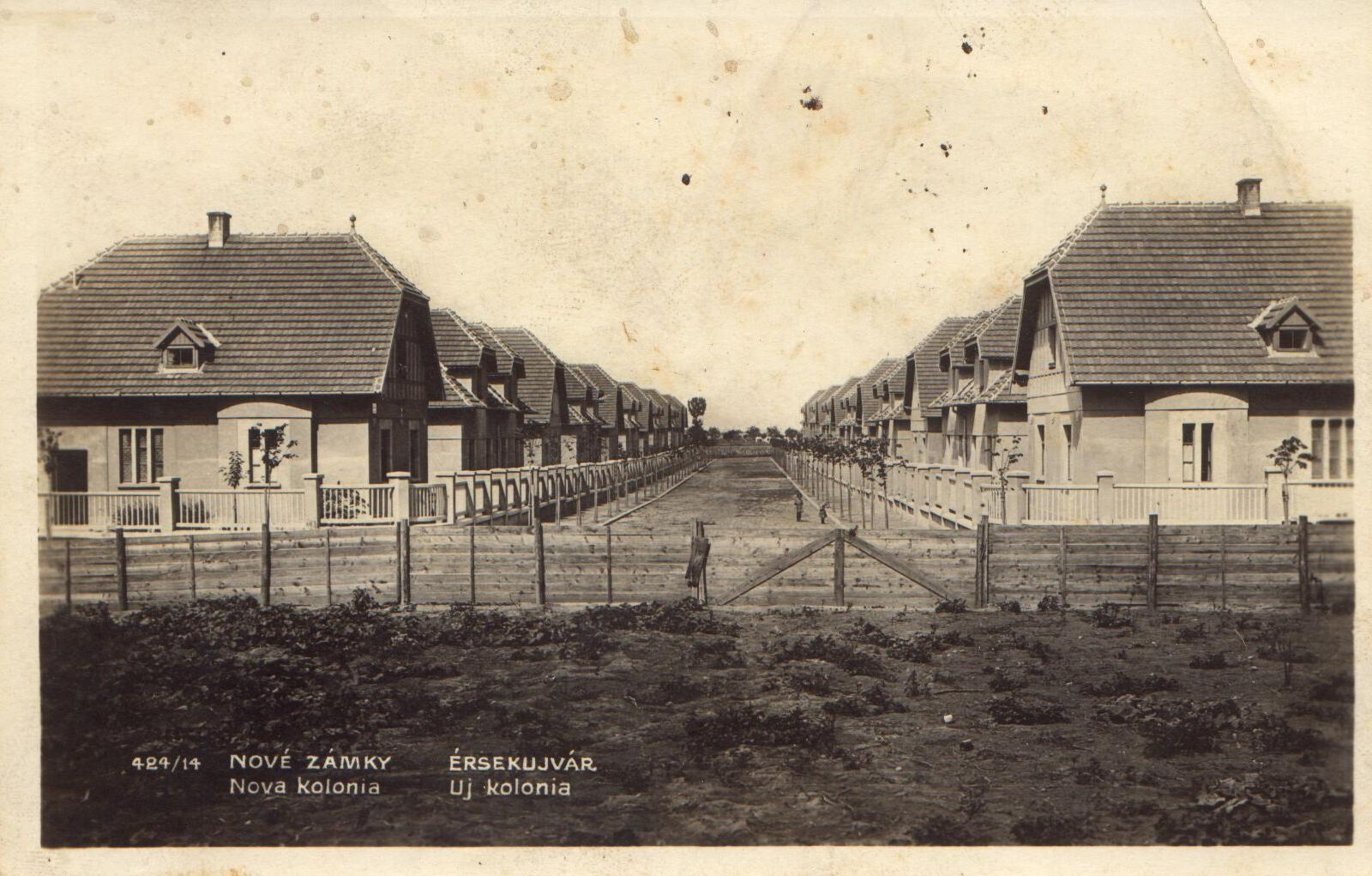 Part of Nové Zámky (New Colony) in 1930